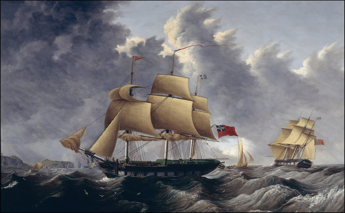 Ship Hugh Crawford that brought immigrants to Australia in the 1820s